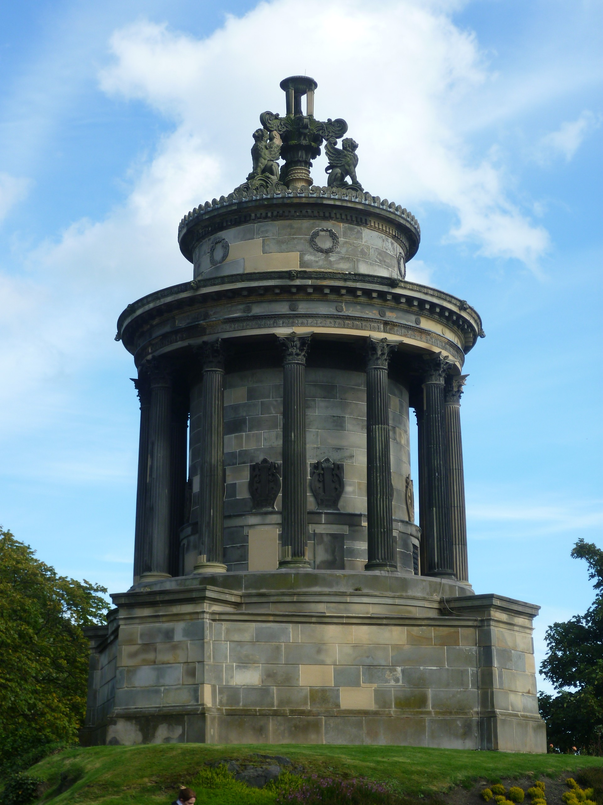 Burns Monument, Calton Hill, Edinburgh